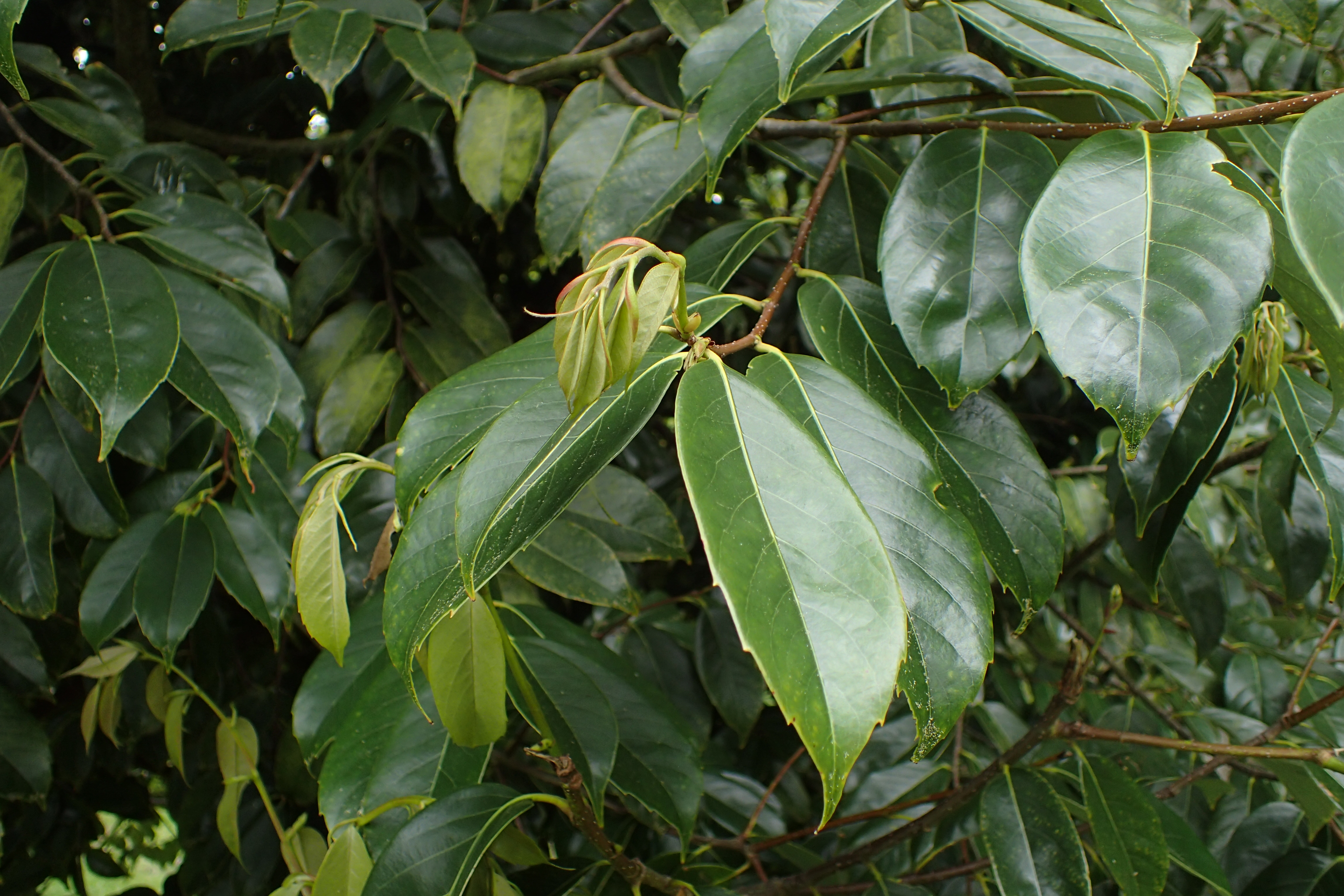 Castanopsis carlesii in Hackfalls Arboretum, Hawkes's Bay (NZ)